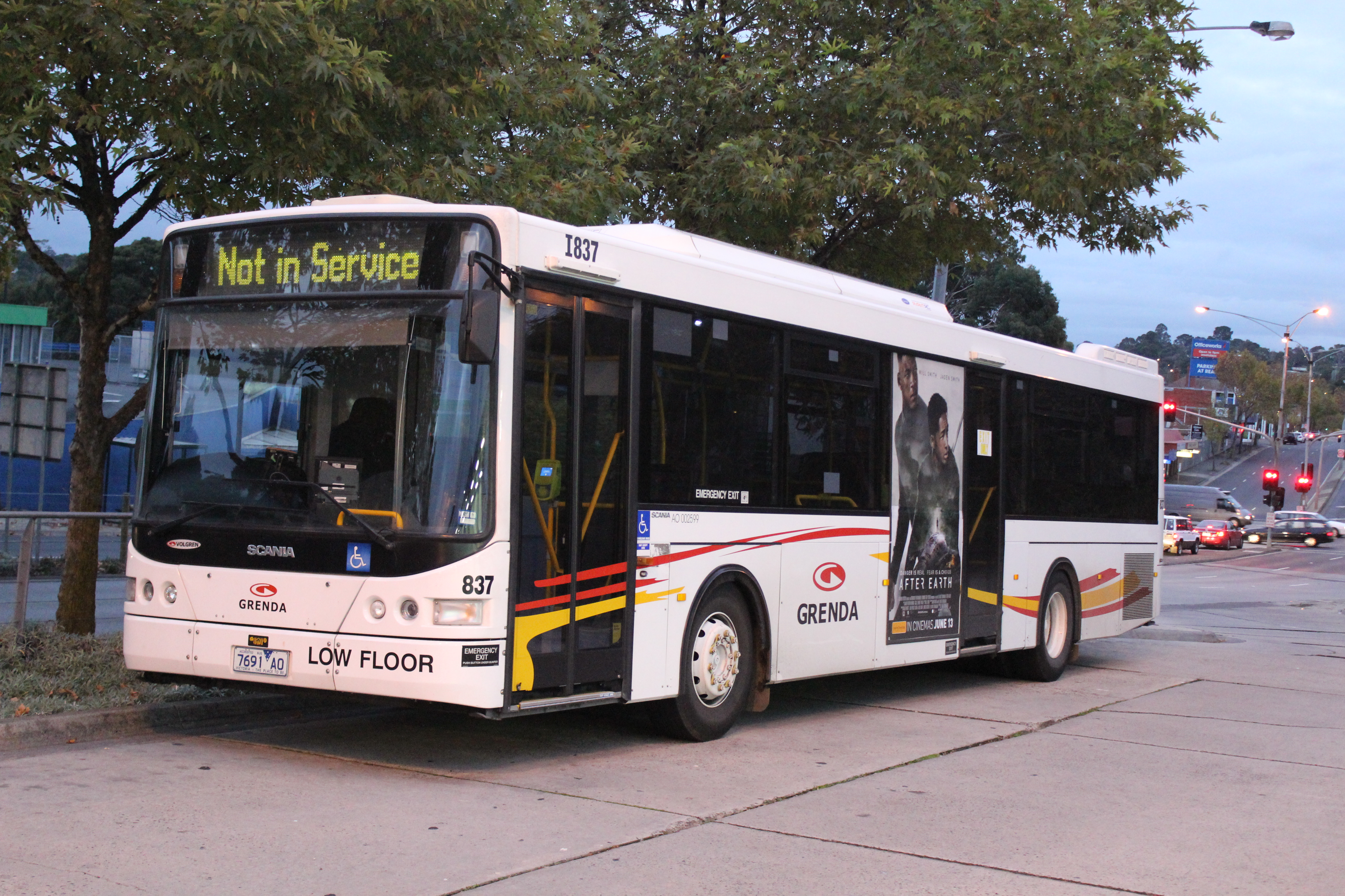 Grenda number 837 (7691AO) Volgren Scania at Ringwood railway station, 2013.